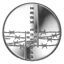 Swiss Commemorative Coin 1992 CHF 20 obverse